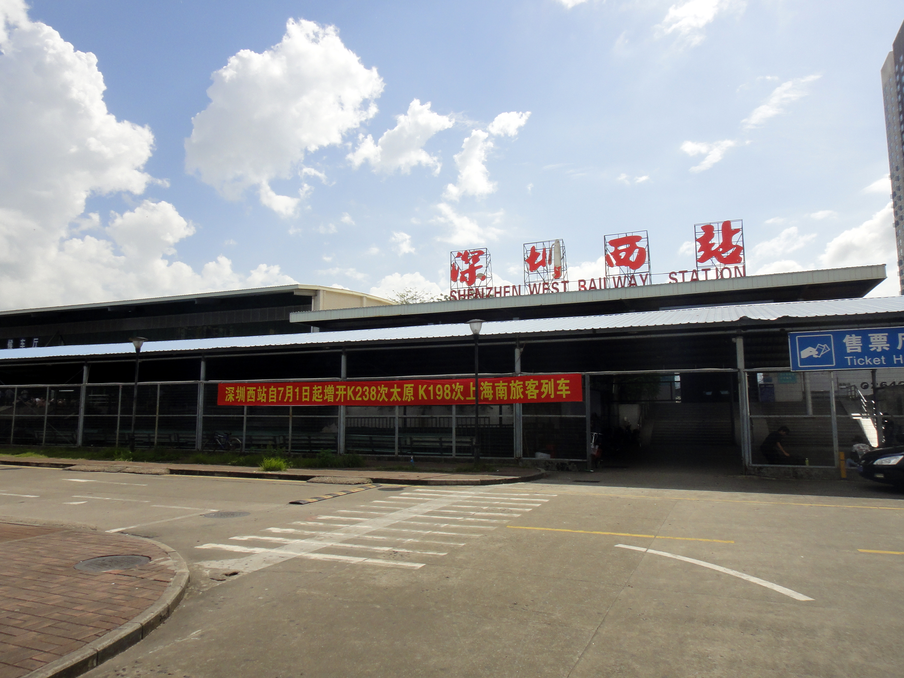 Shenzhen West Railway Station as of July 2013. Due for major renovations, despite attempts to have station closed down.